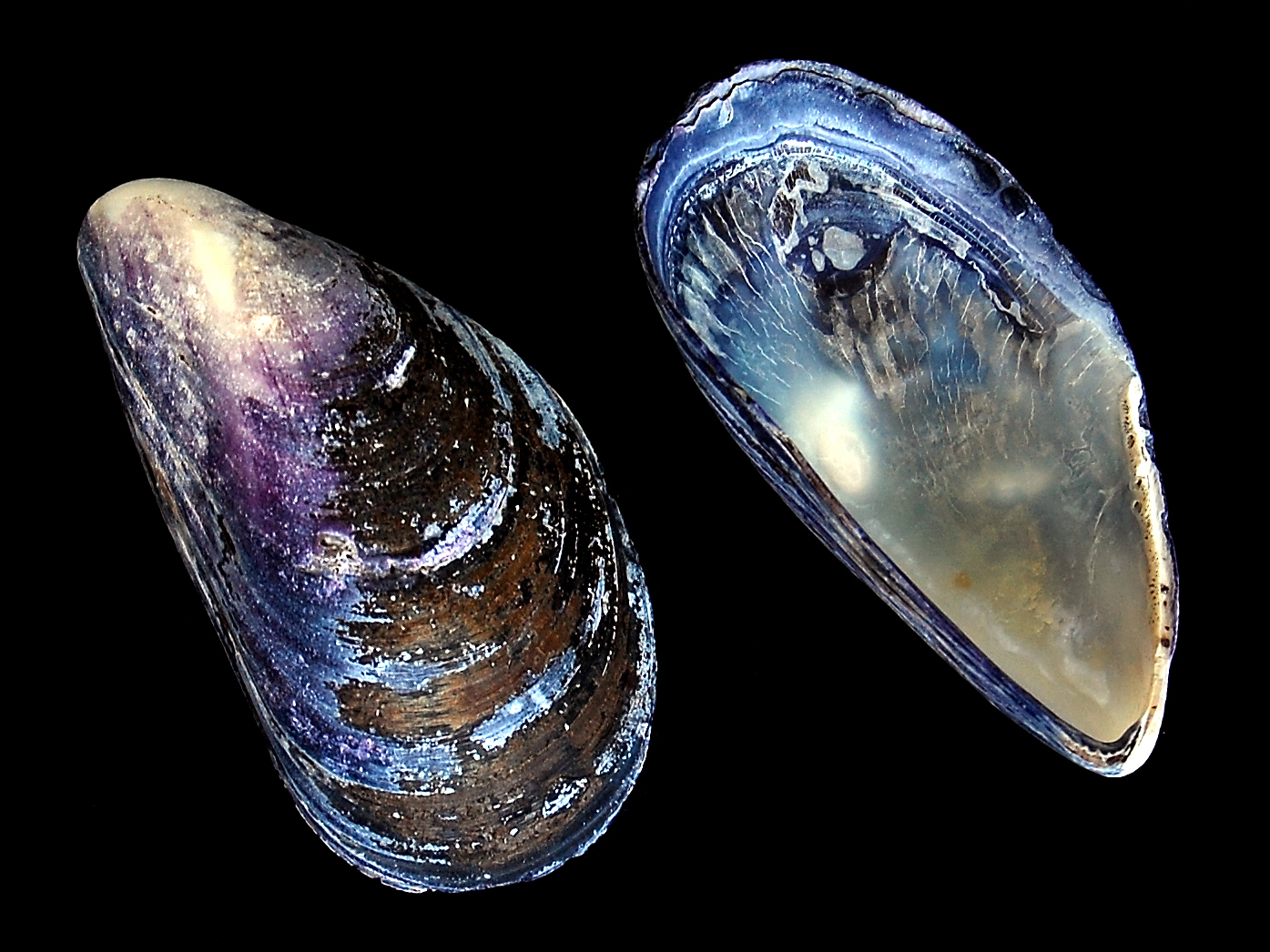 Image of a blue mussel (Mytilus edulis) shell.